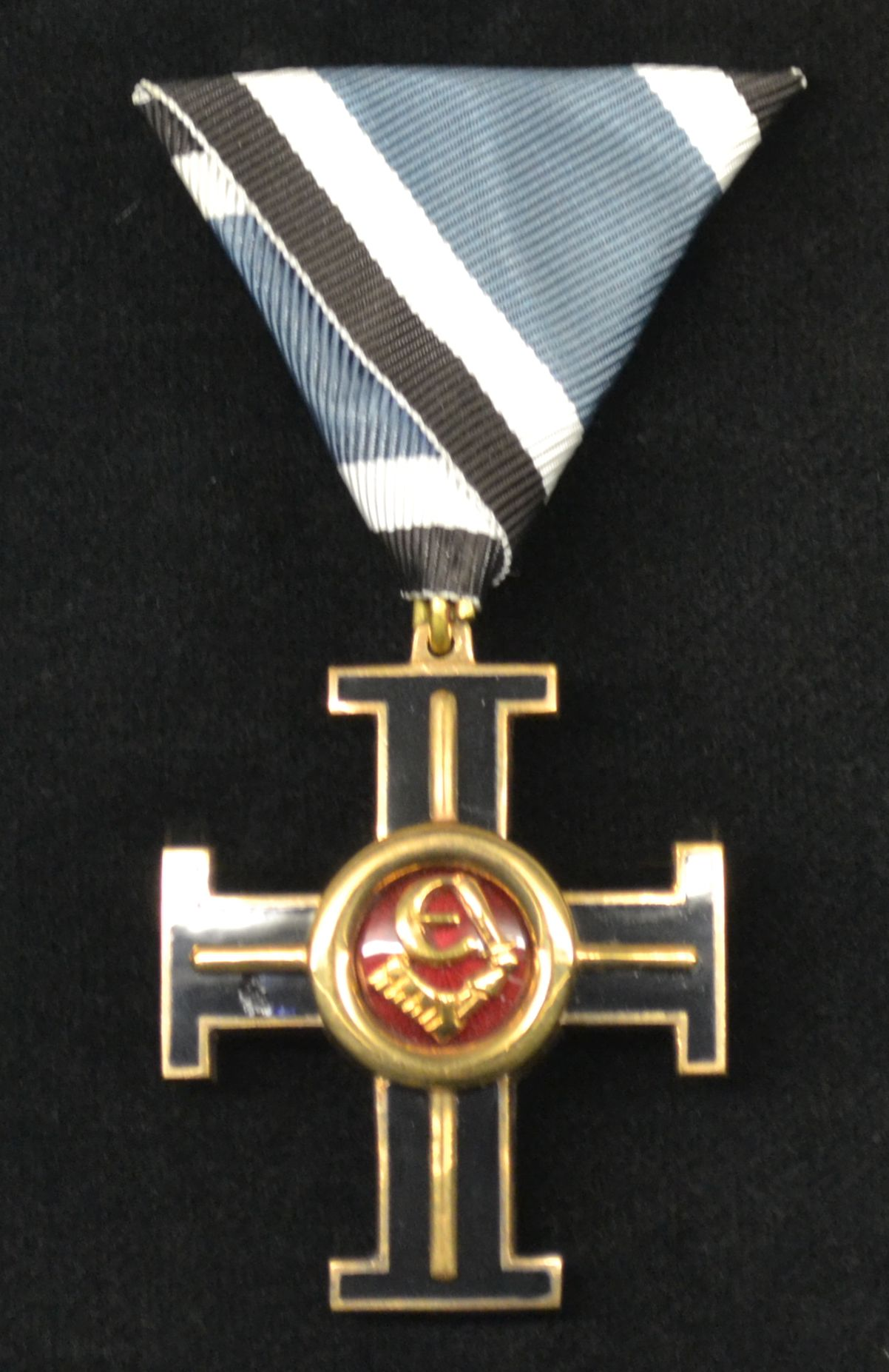 Estonia. Cross of Liberty, 2nd grade 1st class. The exhibition of the Estonian State Decorations at the National Library of Estonia in Tallinn.